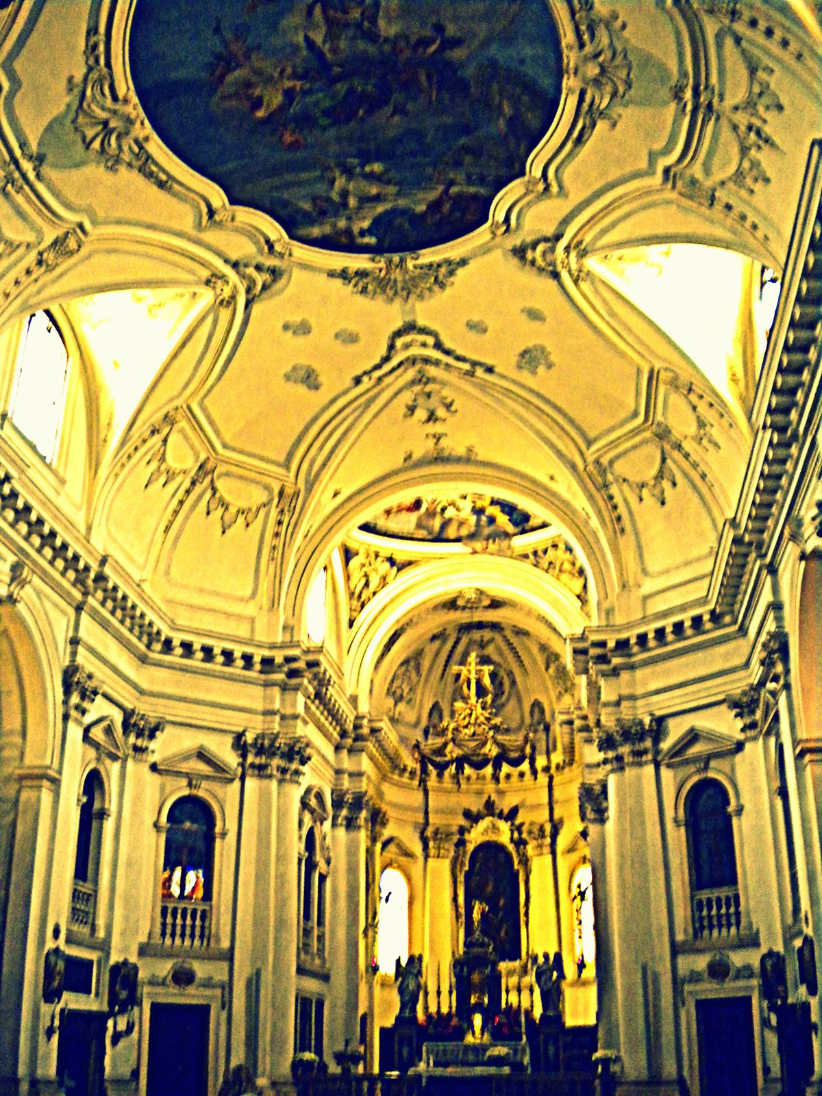 Veduta generale dell'interno della Chiesa di Santa Croce in Padova